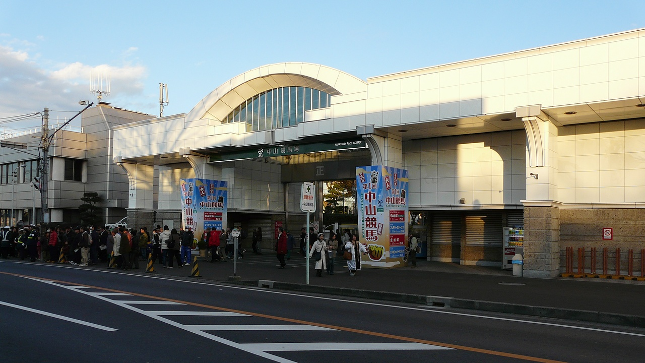 Nakayama-Racecourse08